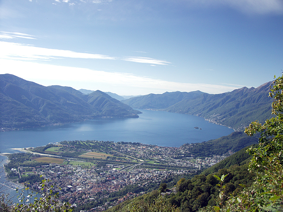 River delta of the Maggia River between Locarno and Ascona (Lake Maggiore / Switzerland)